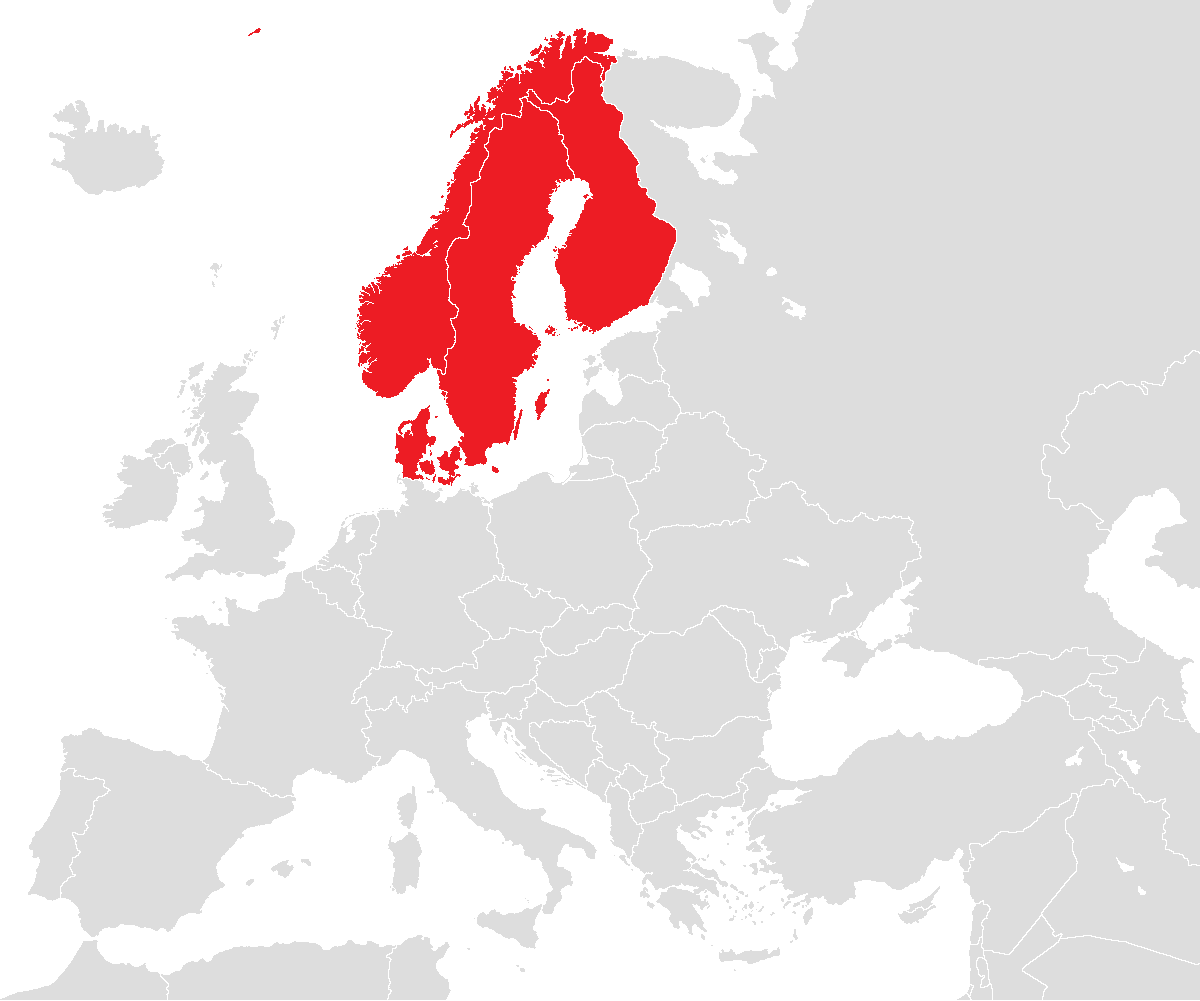 Area served by the Bank Norwegian in Europe